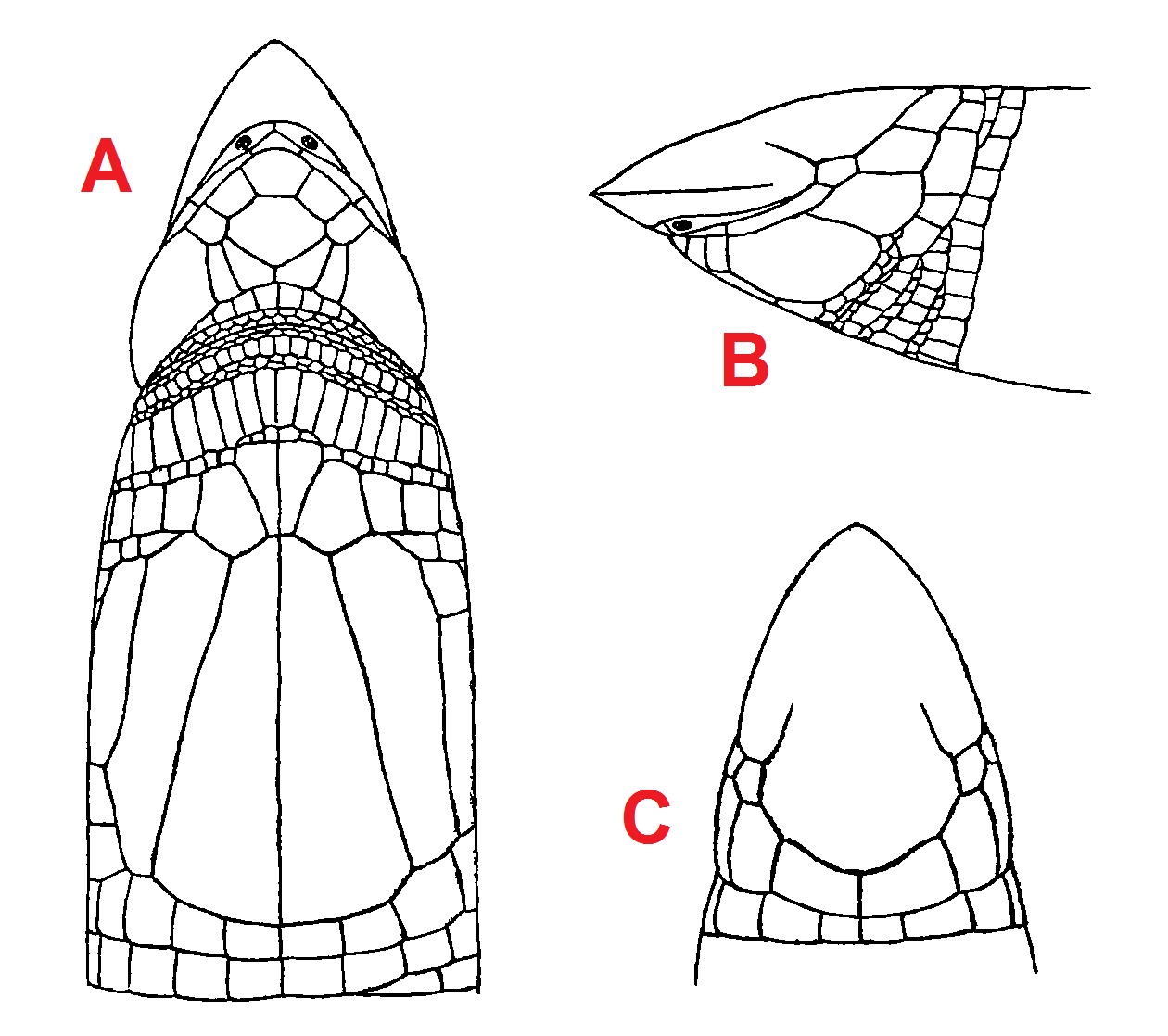 Head and pectoral region from below (A), head lateral (B), and from above (C).